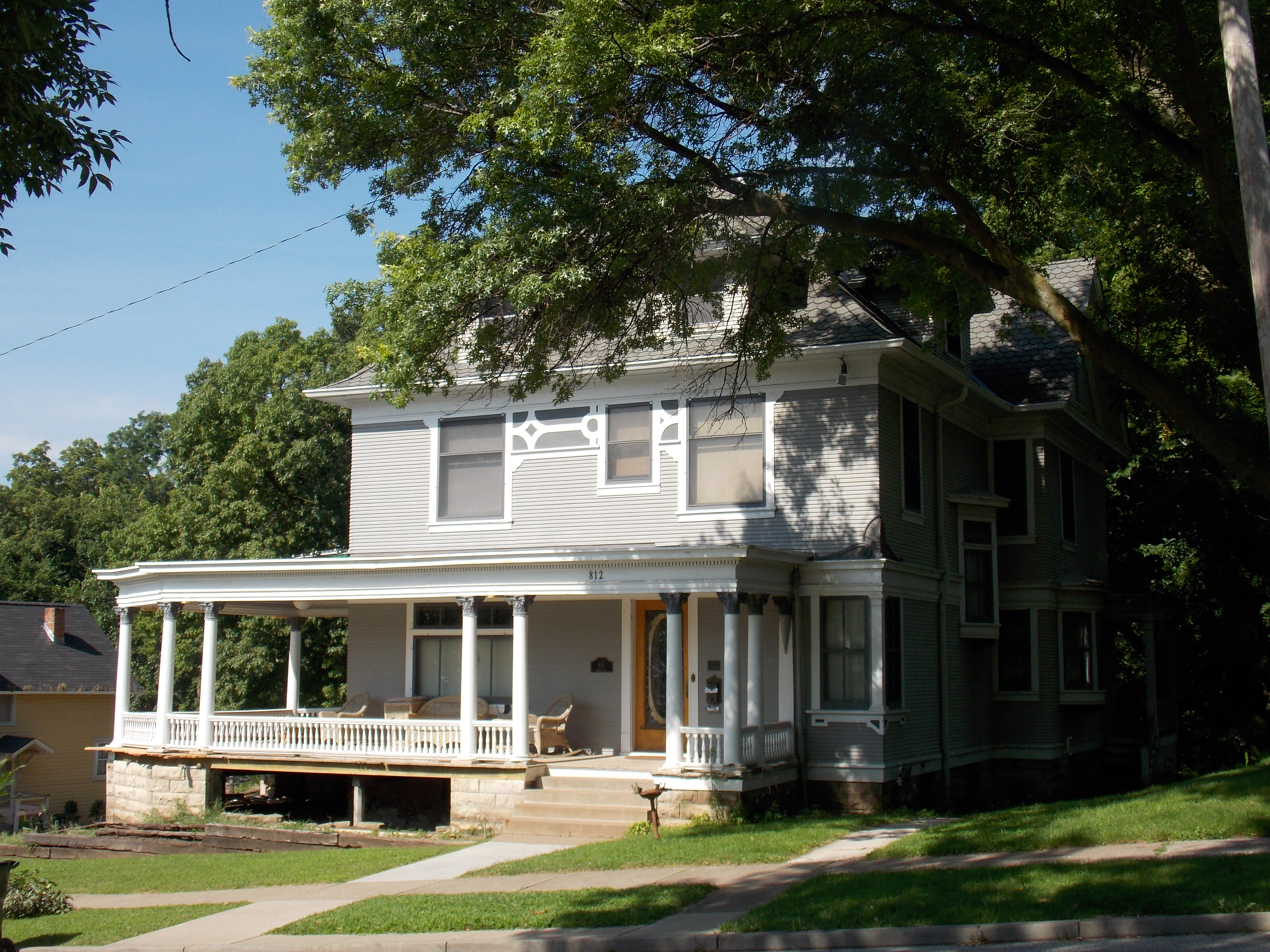 The Cassius D. Hayward House is a contributing property in the Bridge Avenue Historic District, Davenport, Iowa.